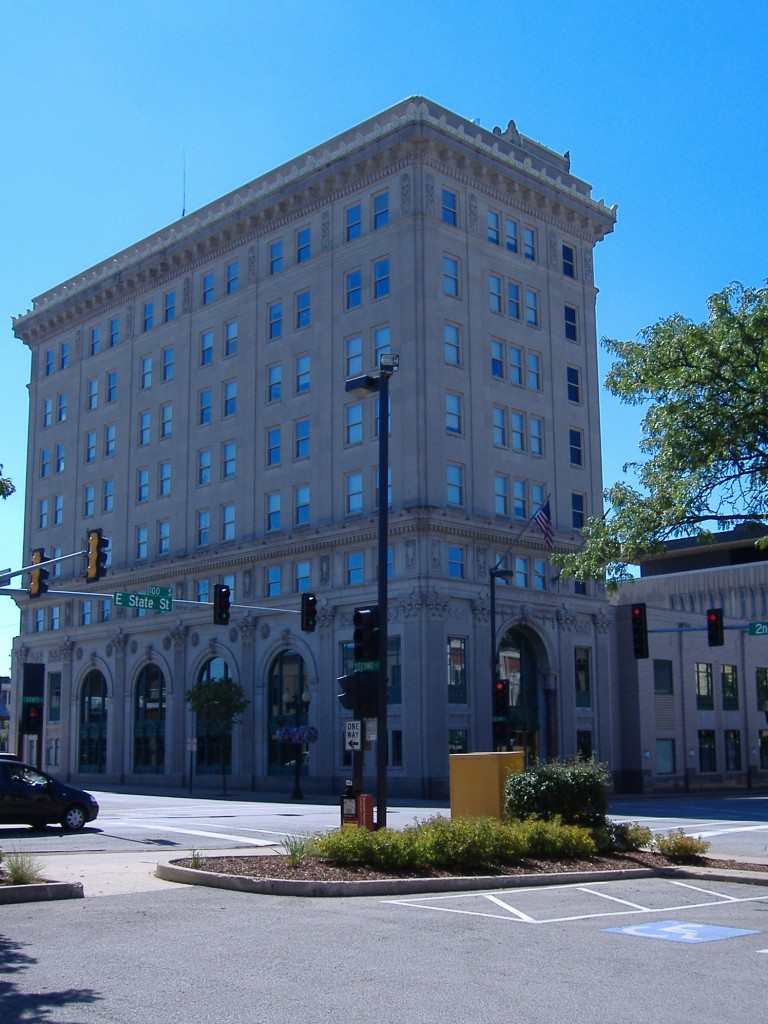 City Hall in Rockford, Illinois, USA. Cropped and rotated in The Gimp.